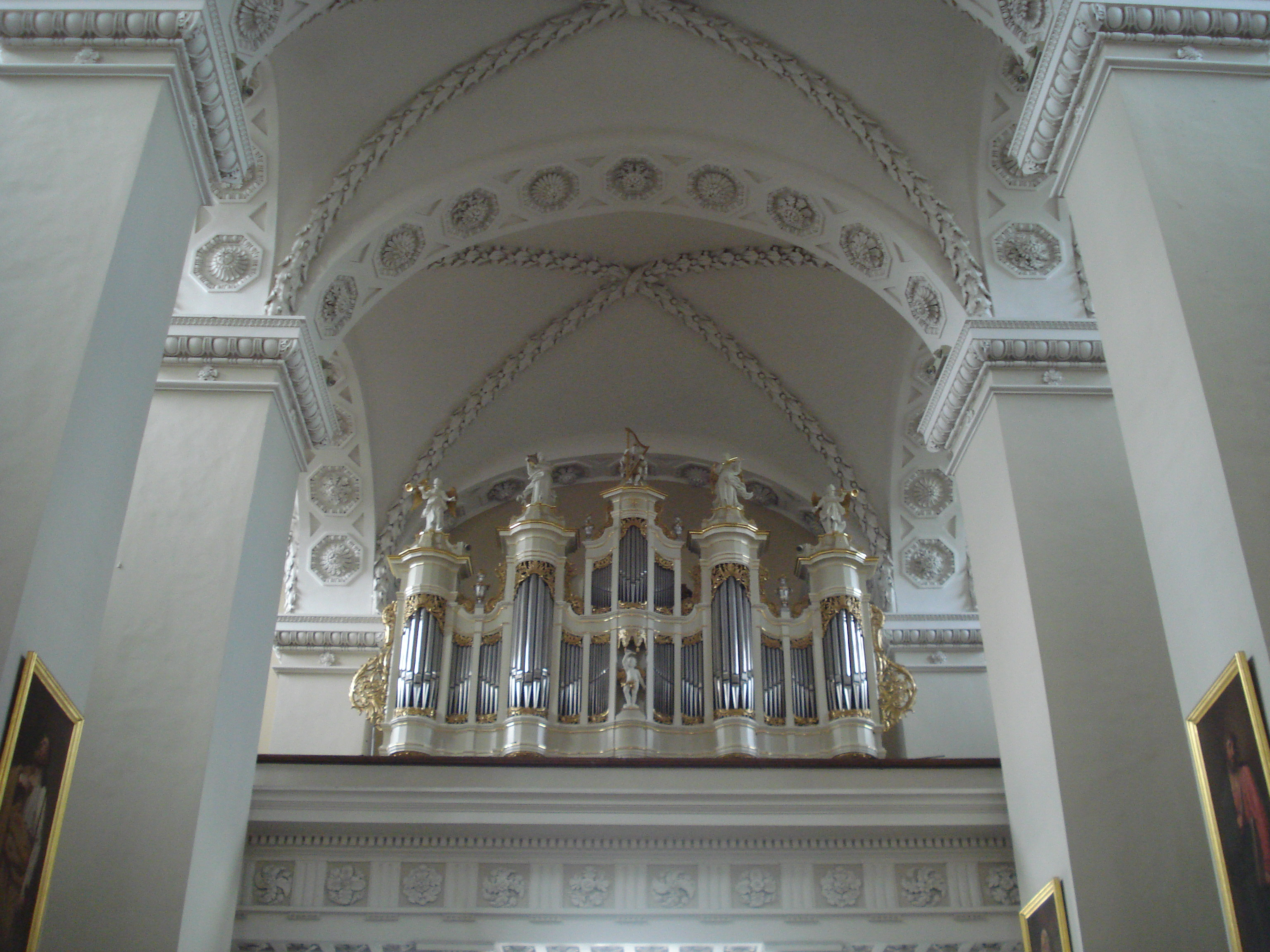 Organ in the Vilnius Cathedral